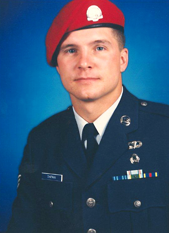 Tech. Sgt. John A. Chapman, shown at the rank of Senior Airman, will be the 19th Airman awarded the Medal of Honor since the Department of the Air Force was established in 1947.